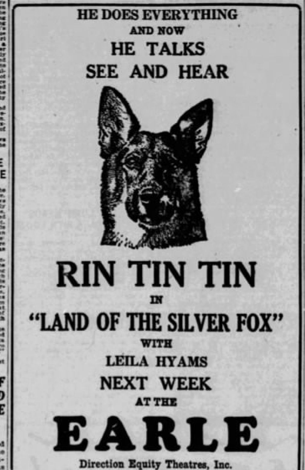 Earle Theater advertisement for the American film Land of the Silver Fox (1928) - 7 Dec MC - Allentown PA